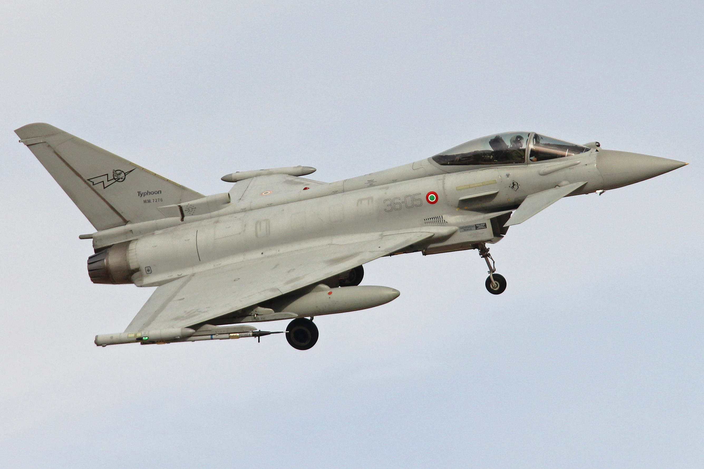 c/n 082, l/n IS008. Operated by 36 Stormo, Italian Air Force. Returning from a mission as part of Red Flag 16-2. Nellis AFB, NV, USA. 3rd March 2016